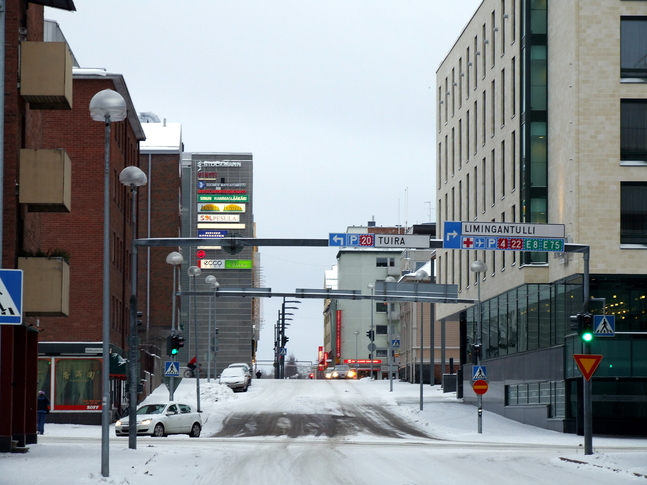 Saaristonkatu street in Oulu, Finland.